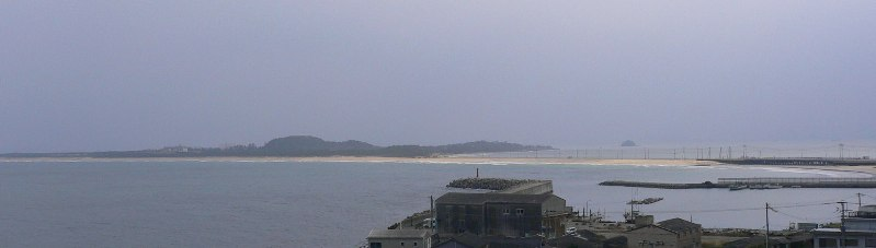 Uminonakamichi in Fukuoka City, Fukuoka Prefecture, Japan